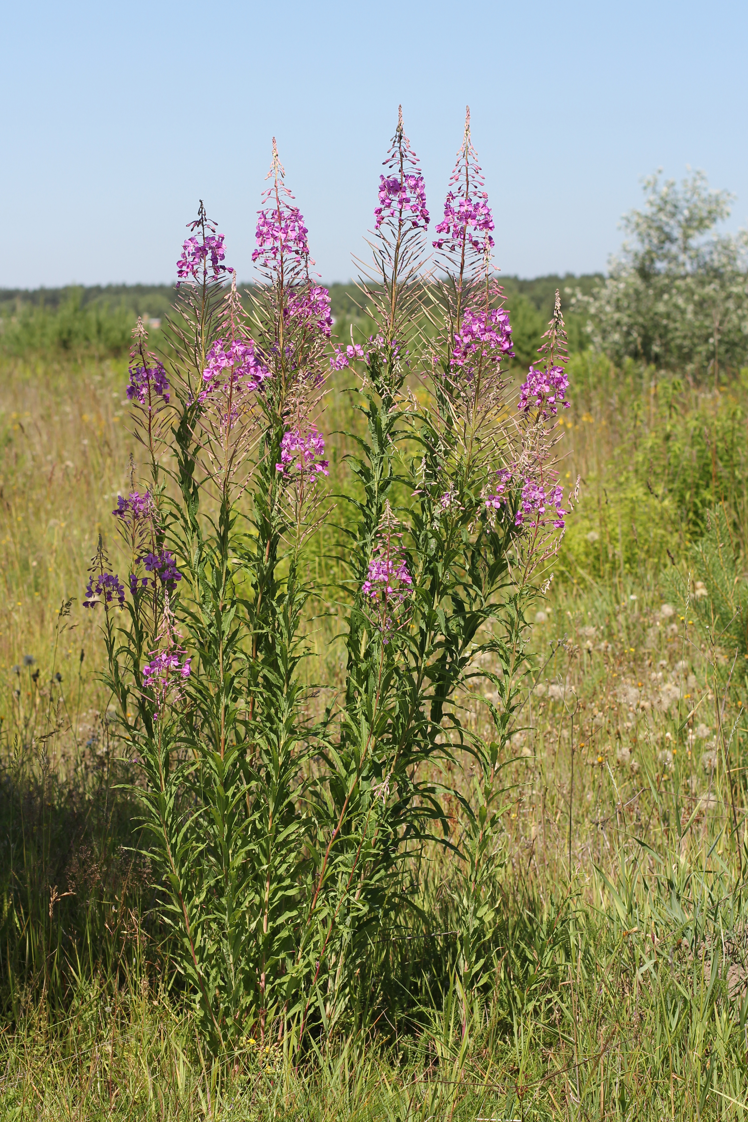 Fireweed, Willow-herb, Rosebay Willowherb (Chamerion angustifolium). The Russian common name is "Ivan-Tea". Ukraine.